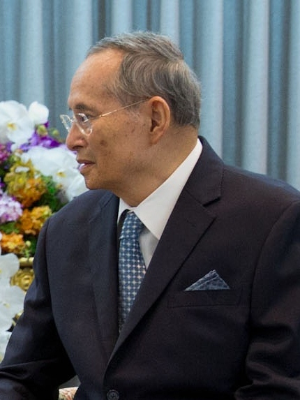 President Barack Obama, with Secretary of State Hillary Rodham Clinton and Ambassador Kristie Kenney, left, meet with King Bhumibol Adulyadej of the Kingdom of Thailand, at Siriraj Hospital in Bangkok, Thailand, Nov. 18, 2012. (Official White House Photo by Pete Souza)